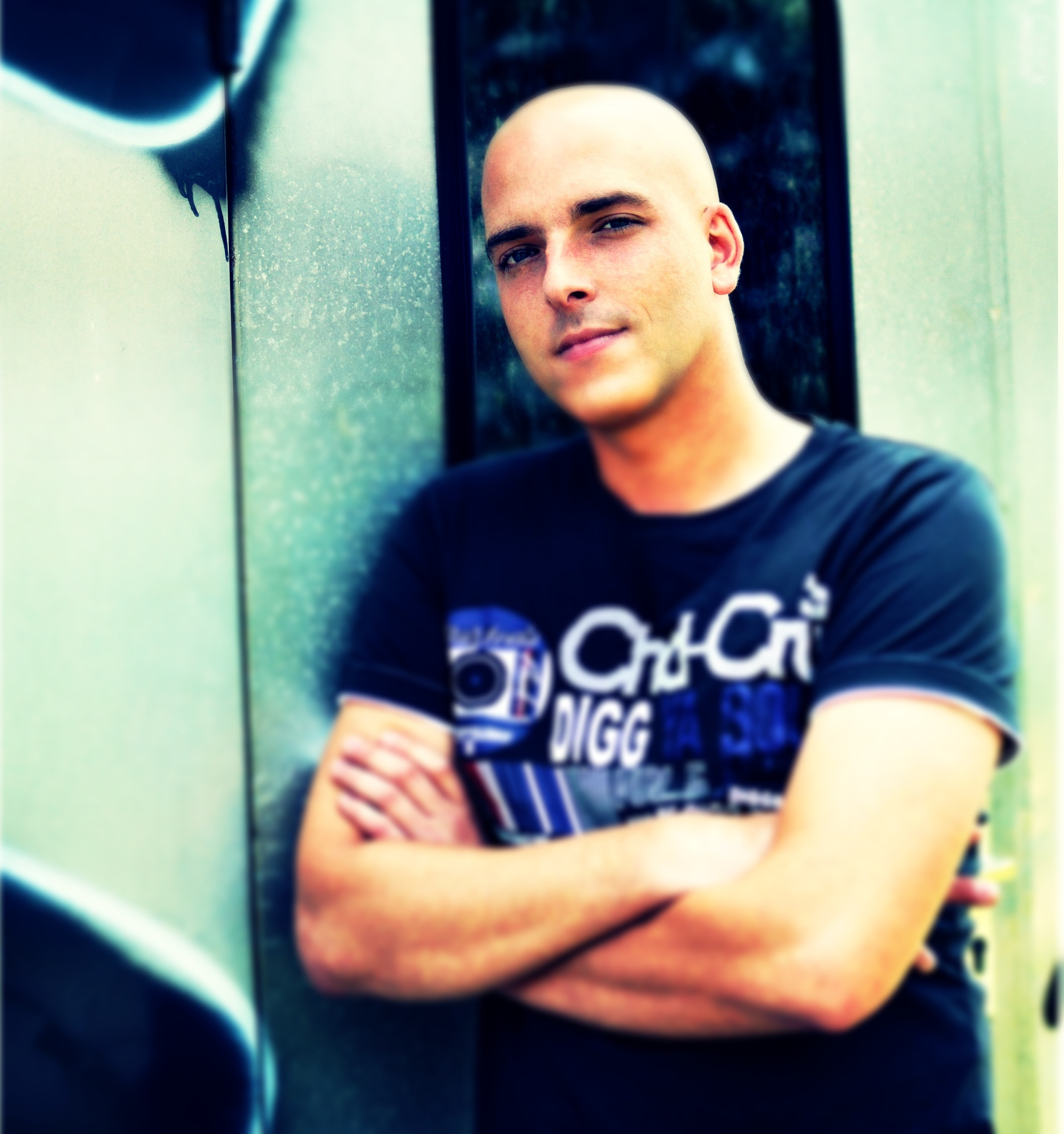 Robin Clark (2014)